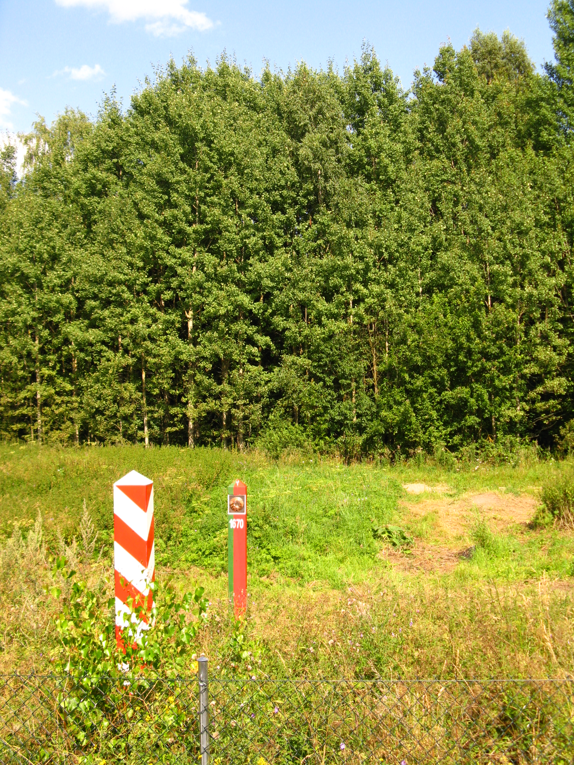 Belarus-Poland border nearby village Tołcze